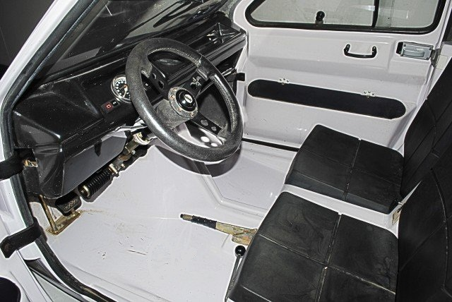 amica interiour